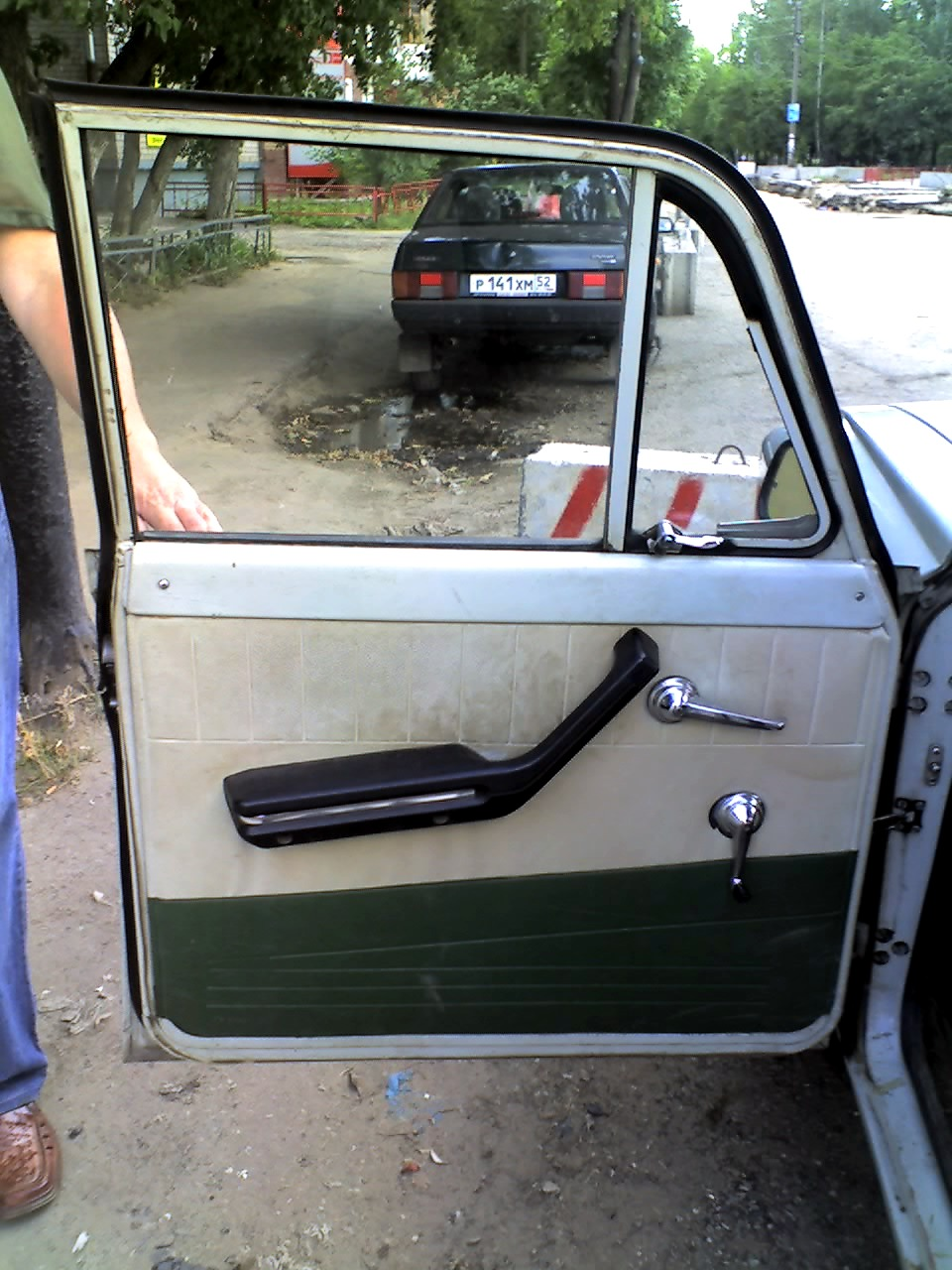 Moskvitch-408 door panel (non-original armrests)